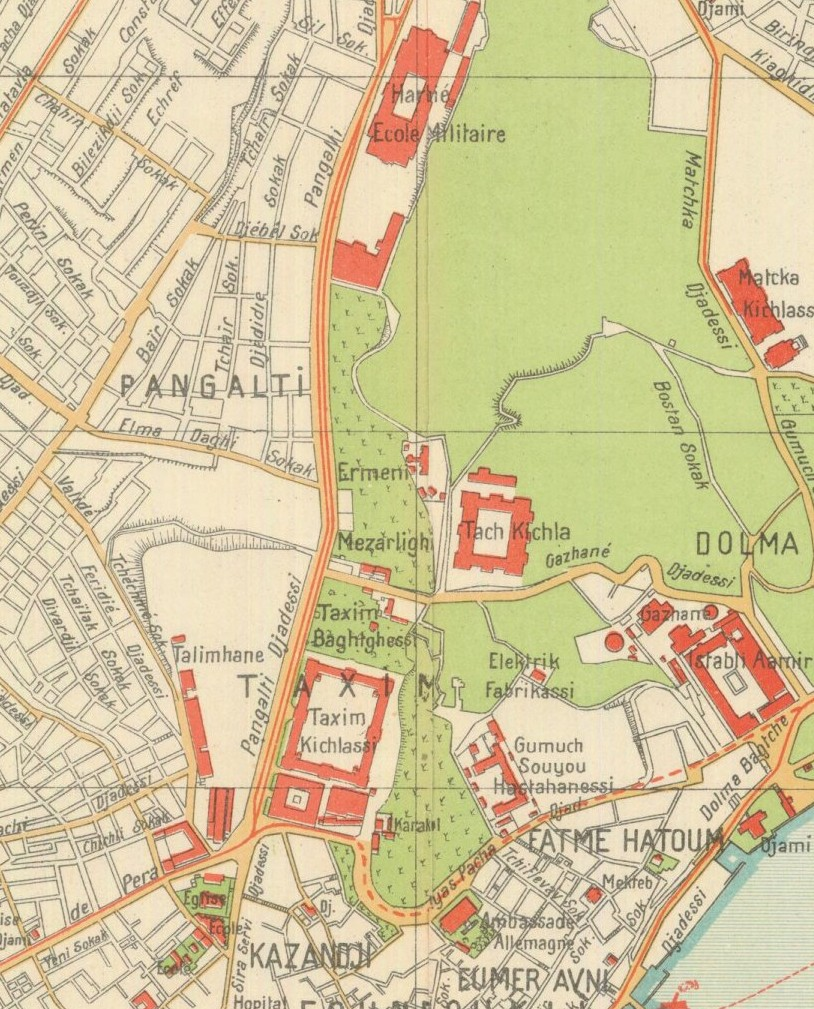 Detail of File:Istanbul PU946.jpg, showing the Pangaltı Armenian Cimetery, 1922.